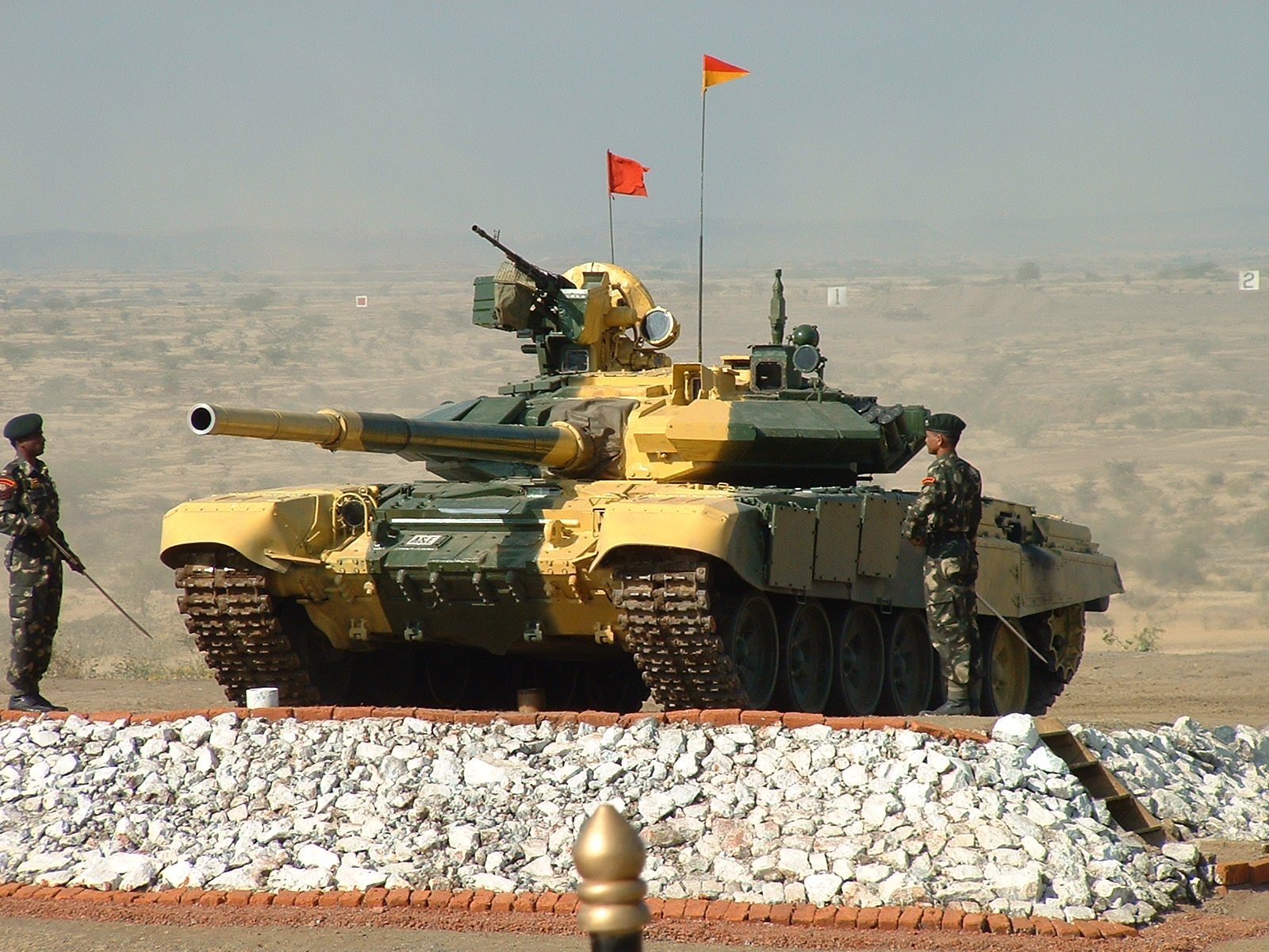 T90S 'Bhishma' main mattle tank of the Indian Army on display